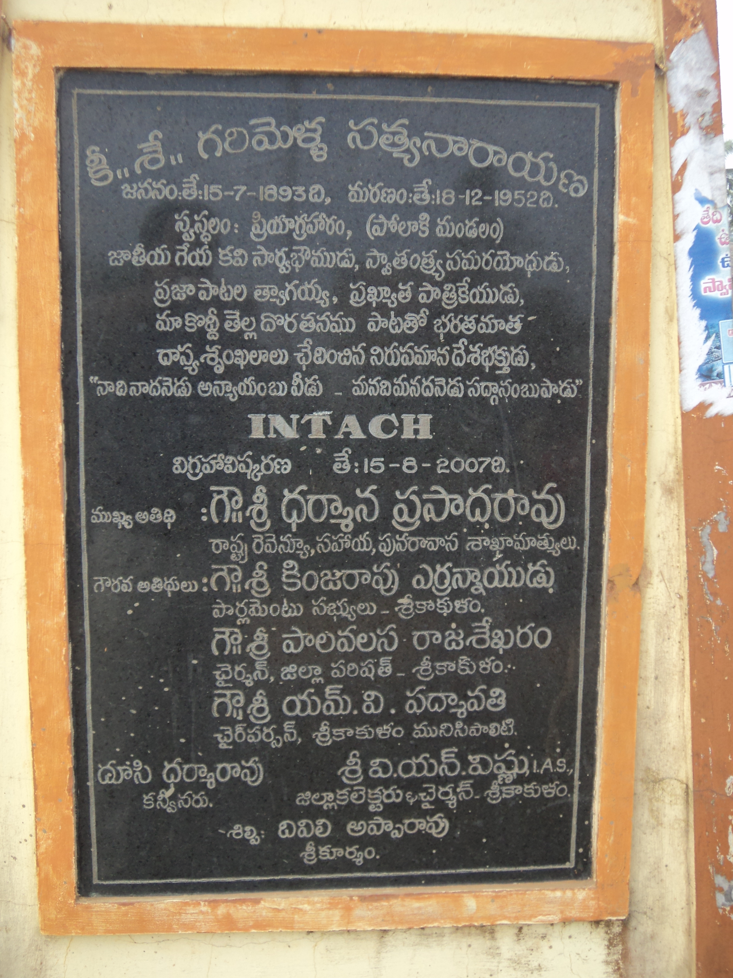 This photograph of information plate below the Statue of Garimella Satyanarayana in Srikakulam taken by me.Rajasekhar1961 (talk) 12:00, 21 February 2012 (UTC)